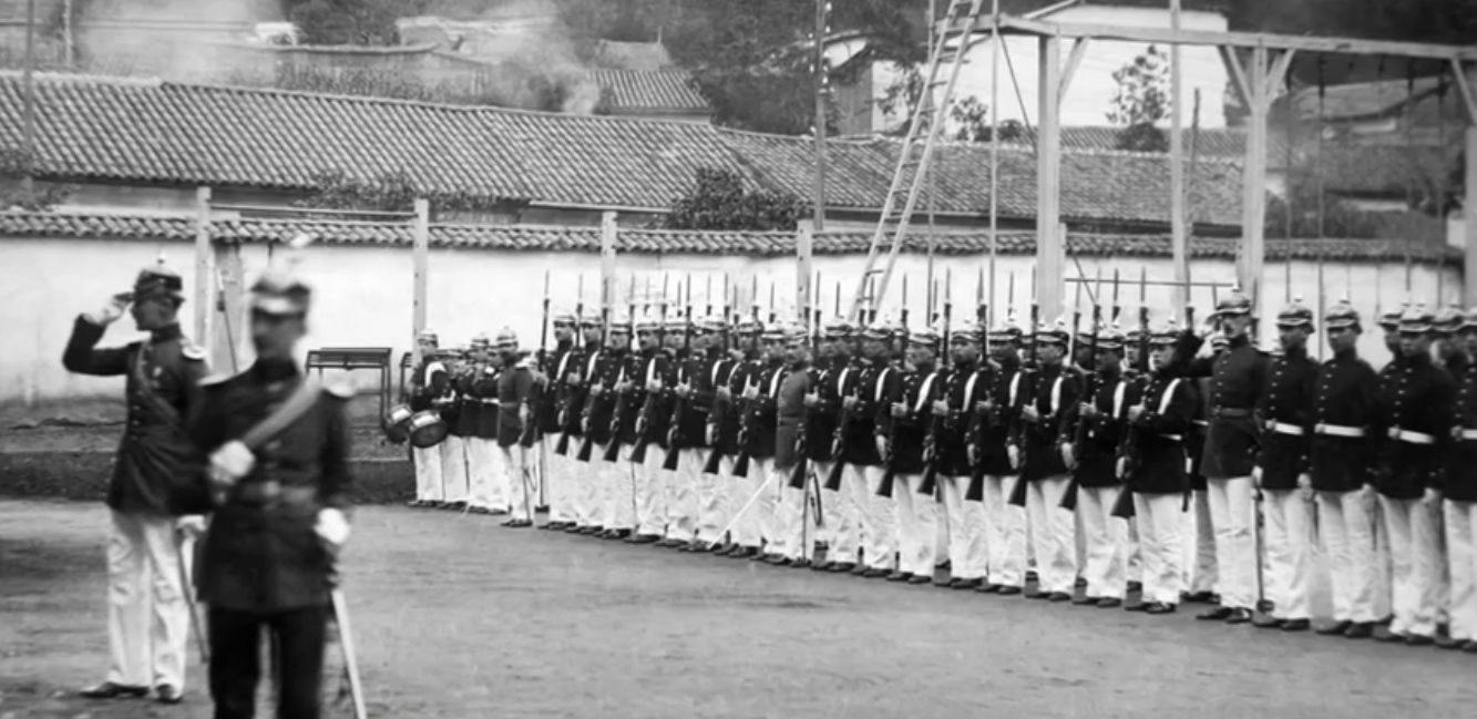 Colombian Cadets standing at attention, Colombian military academy circa 1910